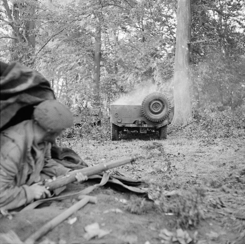 A soldier of 1st Airborne Division watches as a jeep burns after being hit by a mortar shell in the grounds of the Hartenstein Hotel in Oosterbeek, Arnhem, 24 September 1944.